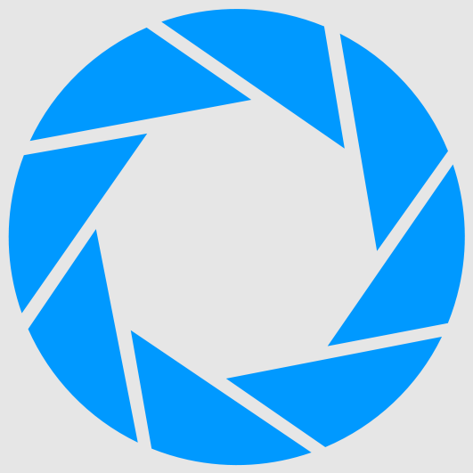 Logo of Aperture Science company. Derived from ":Image:Aperture Science.png" by VernerVernerio. Background colour is #e6e6e6.